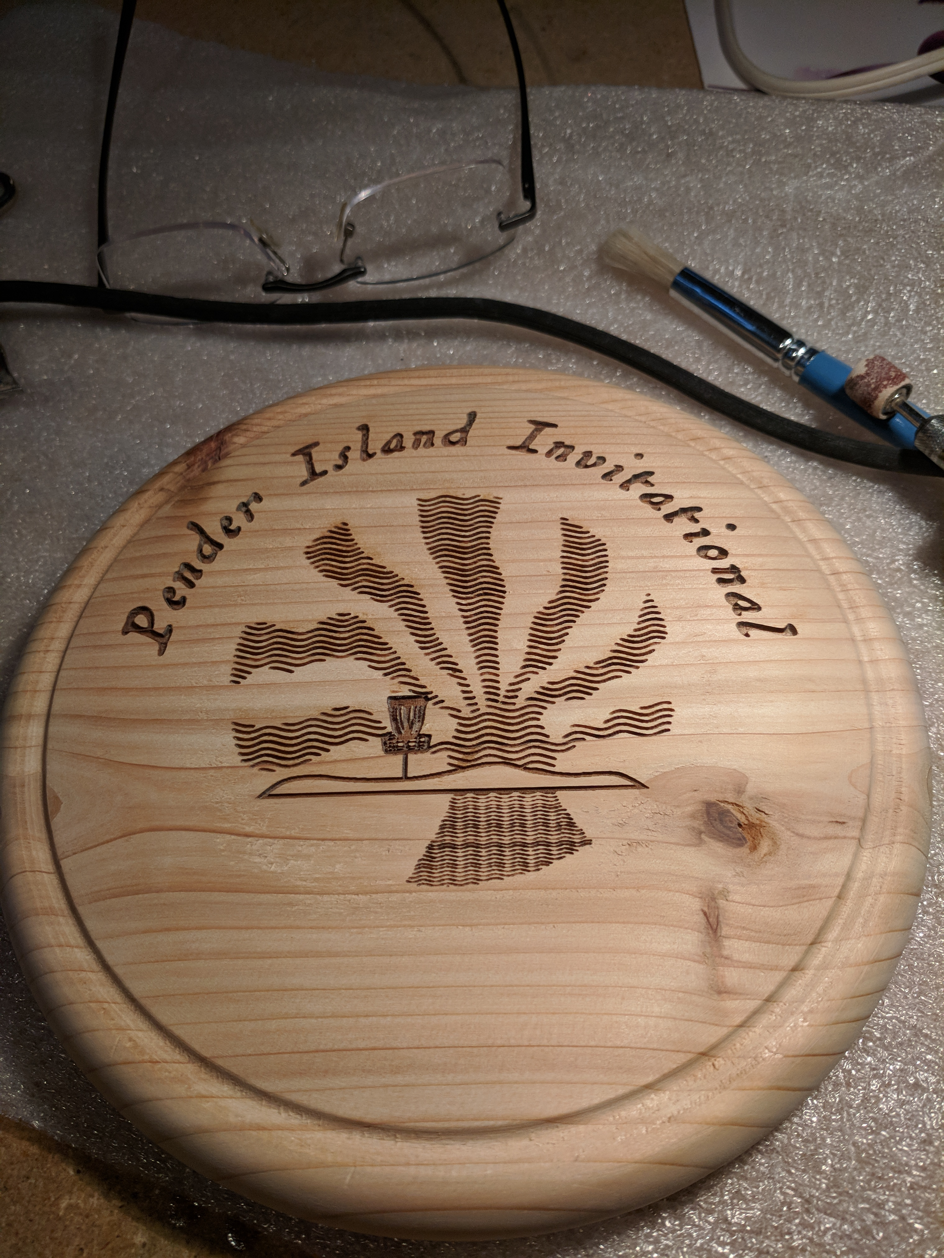 The PII Director is the keeper of the Director's Award. He may choose to bestow the award on a participant, typically for a one-year period.